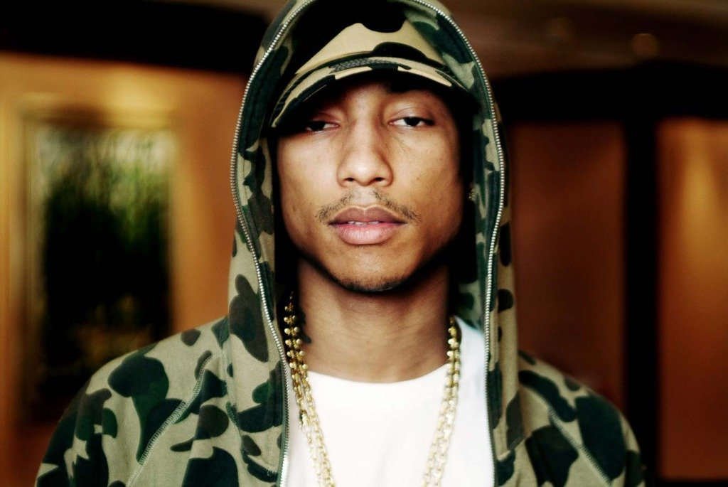 Musician and music producer Pharrell Williams, photographed in Berlin by foto di matti